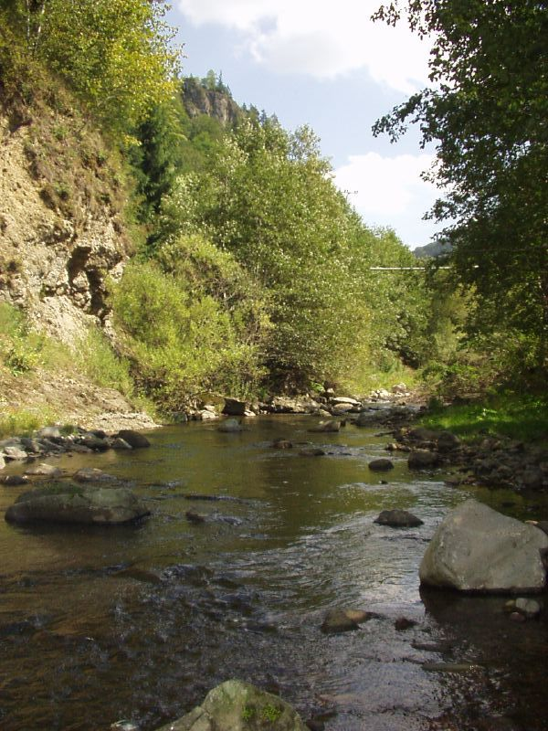 The Bistriţa River in Colibiţa, Romania.Colibita